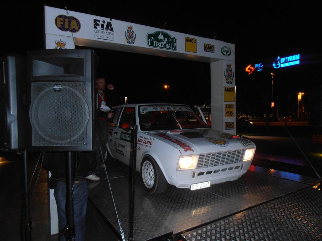 Zastava Yugo 65 at Tesla Rally in Beograd